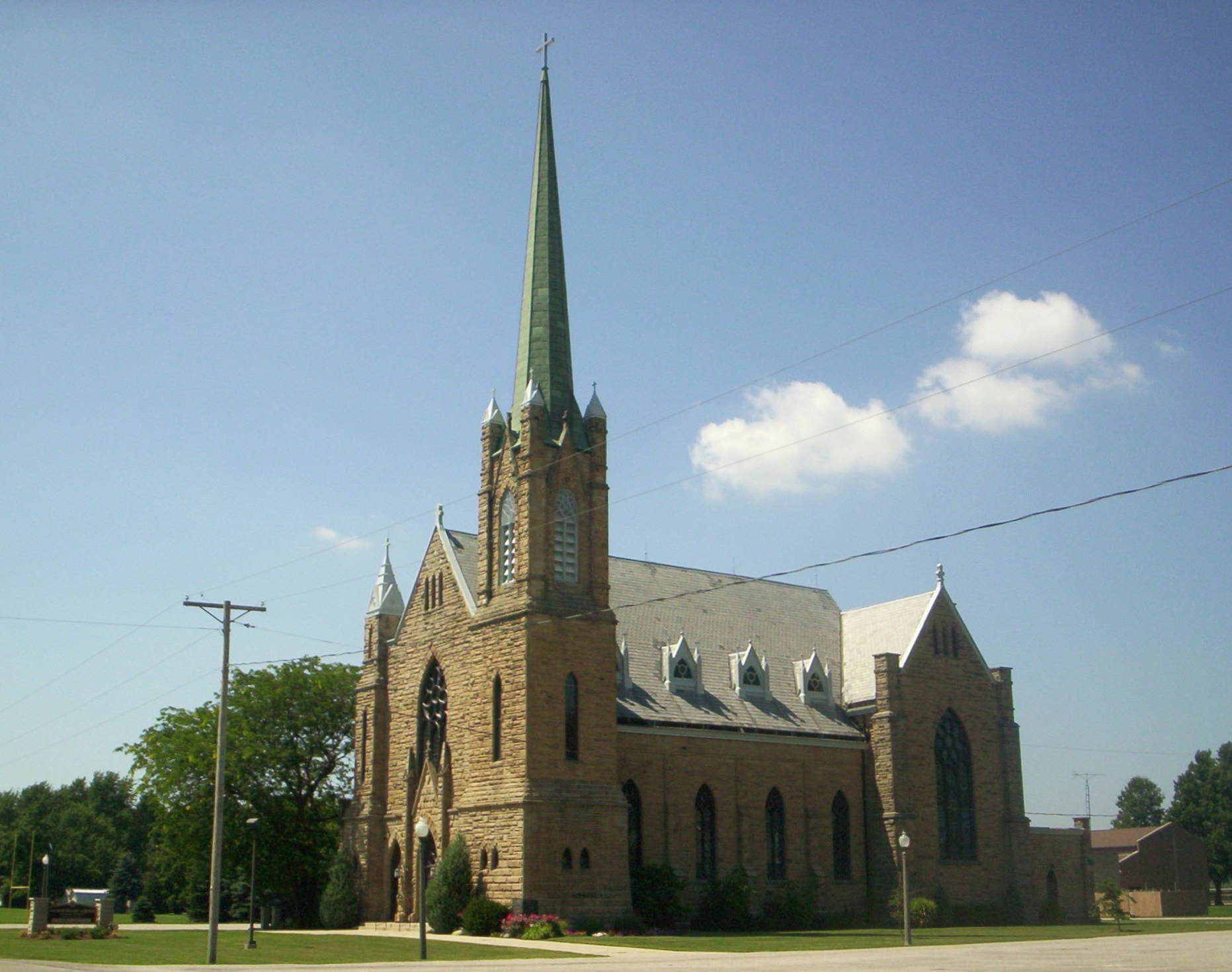 National Register of Historic Places Sacred Heart of Jesus Churches at 5750 State Route 61 S. in Sharon Township, Richland County, Ohio, United States. It has been on the NRHP since January 6, 1986.